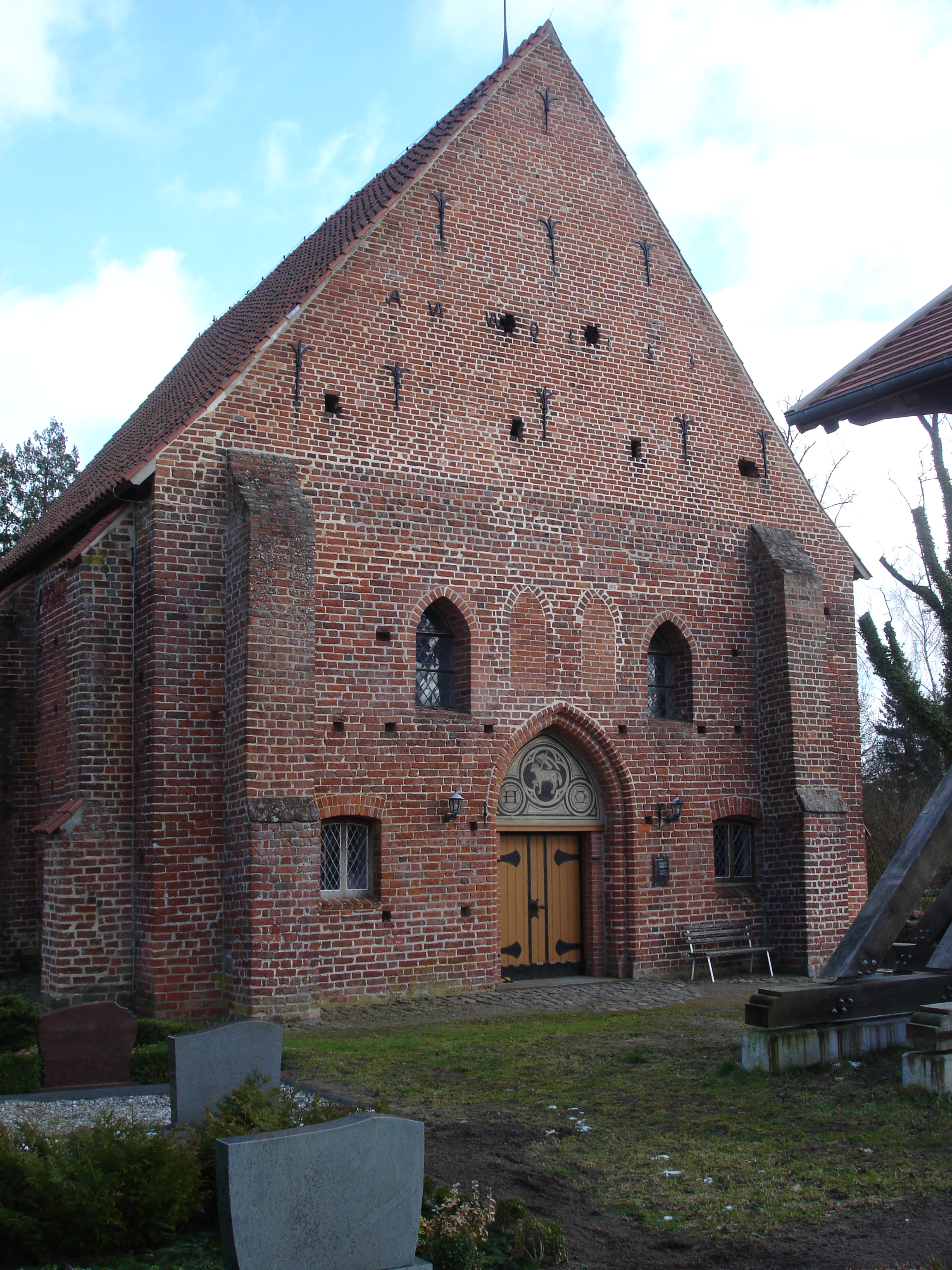 Church in Groß Trebbow, district Nordwestmecklenburg, Mecklenburg-Vorpommern, Germany